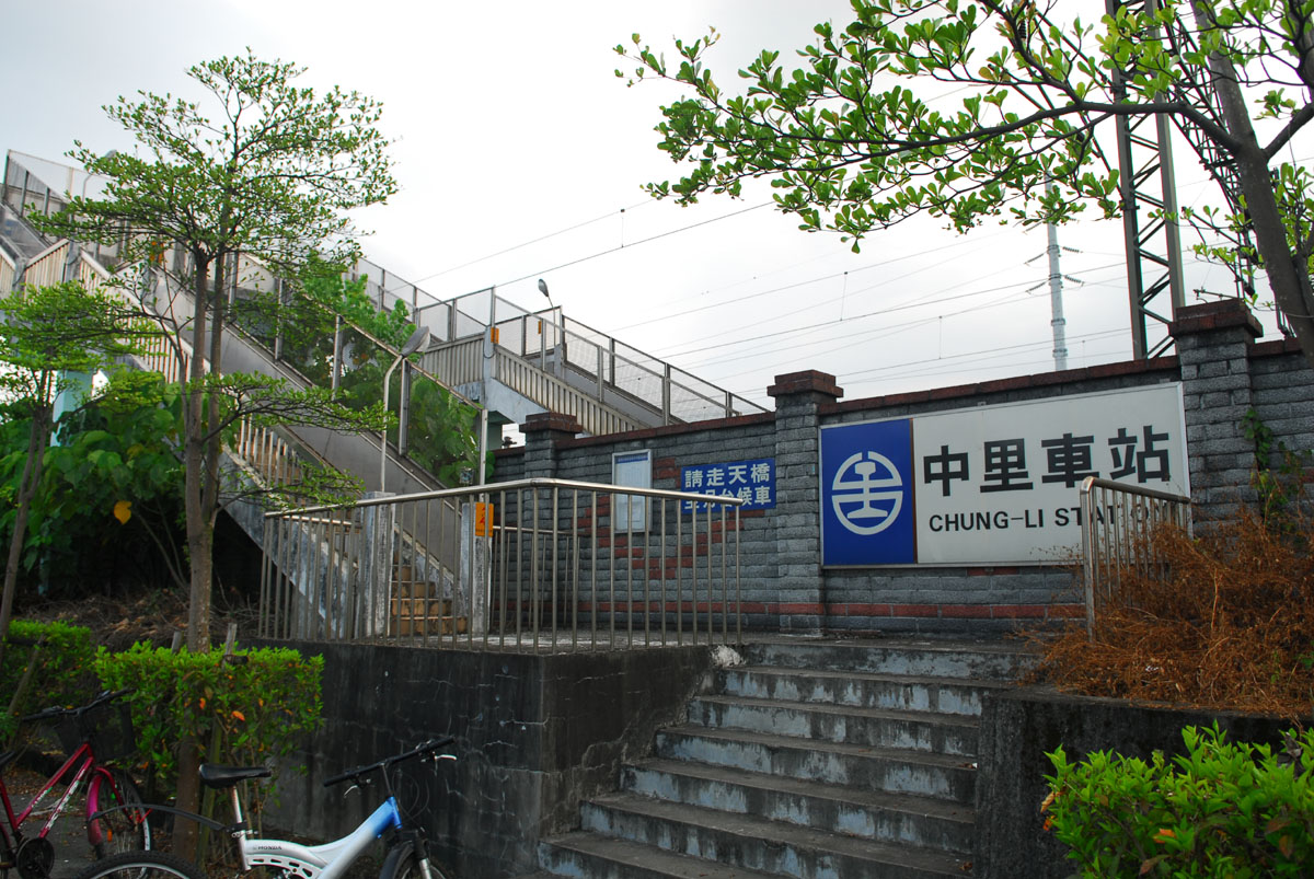 Chungli Station is a small local train station of Yilan Line, part of Taiwan's eastern rail line. Chungli is a staffless station and has no real station building. Passengers have to pass the railway by skybridge before arriving its only platform.